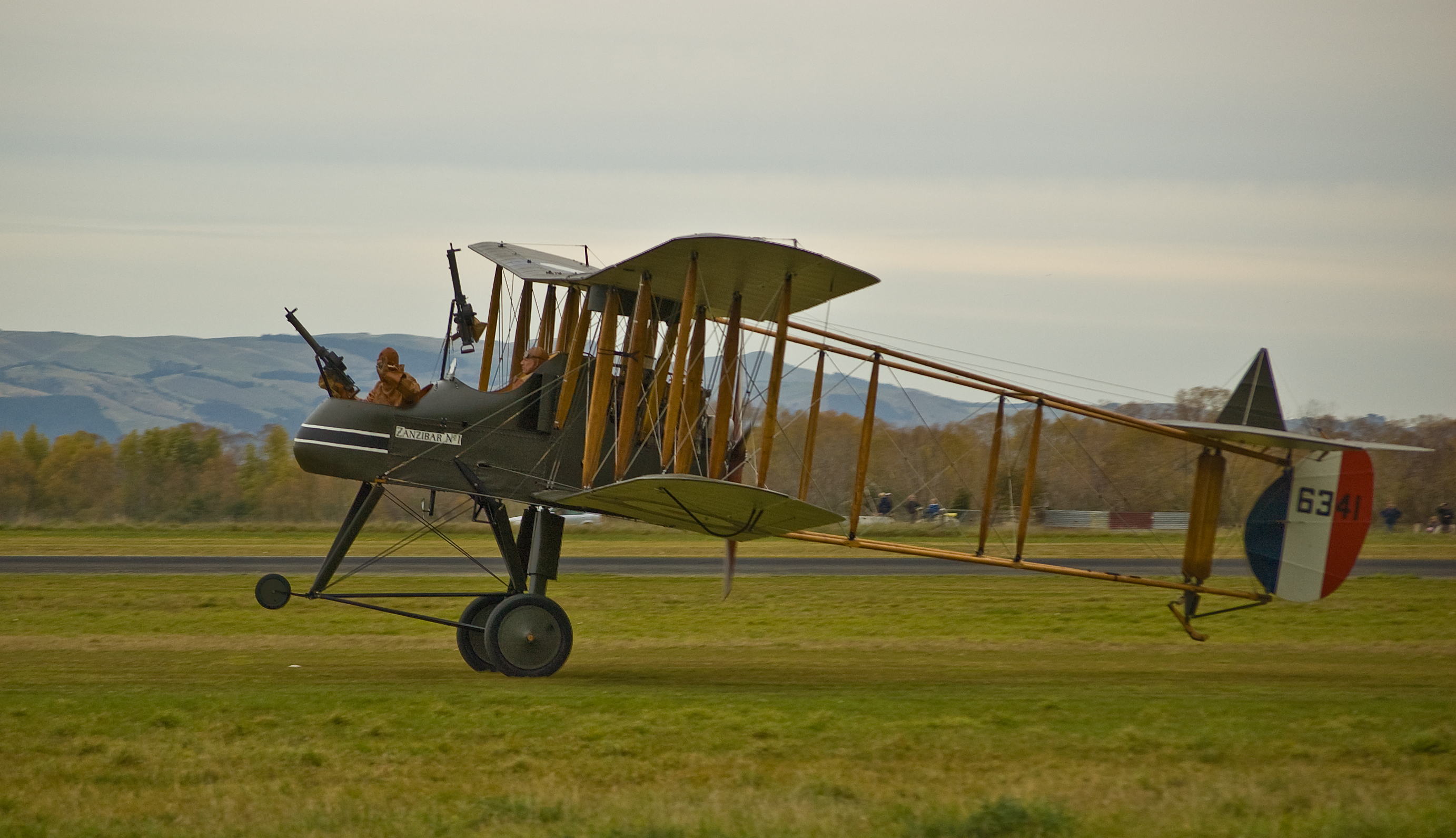 The world's only airworthy example on its first public outing. Built from a mix of original components (notably the engine and prop) and modern replicas using authentic materials and the original plans. Built by The Vintage Aircraft Company (Wellington) and commissioned by Peter Jackson the film director - who lives near Masterton.